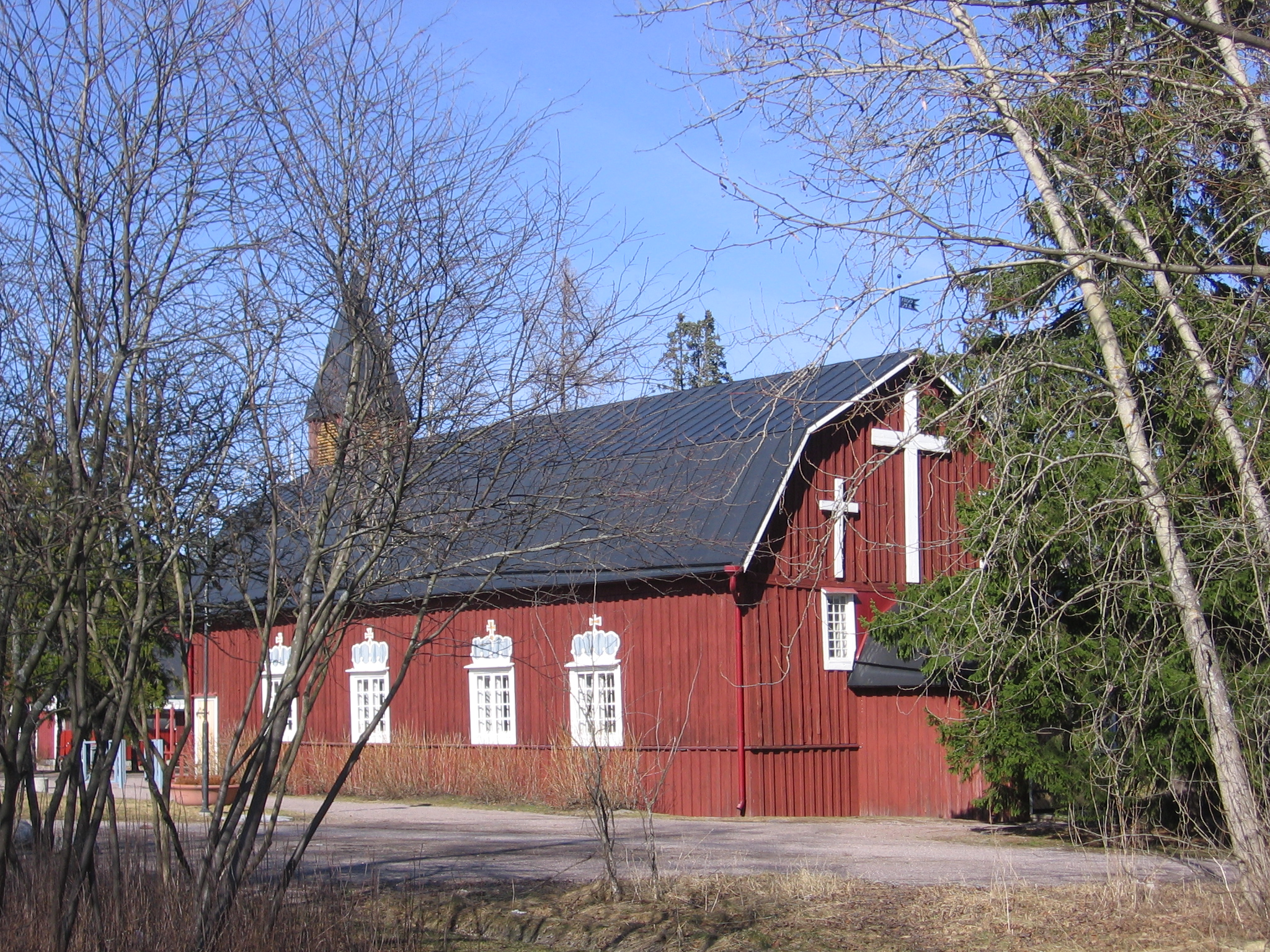 Kellokoski Church, Tuusula, Finland.